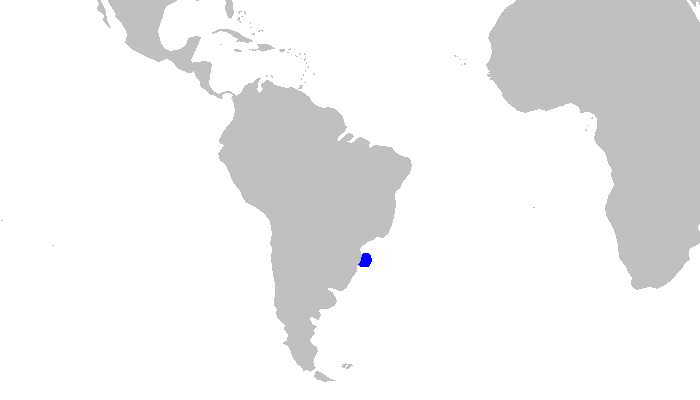 Distribution map for Galeus mincaronei